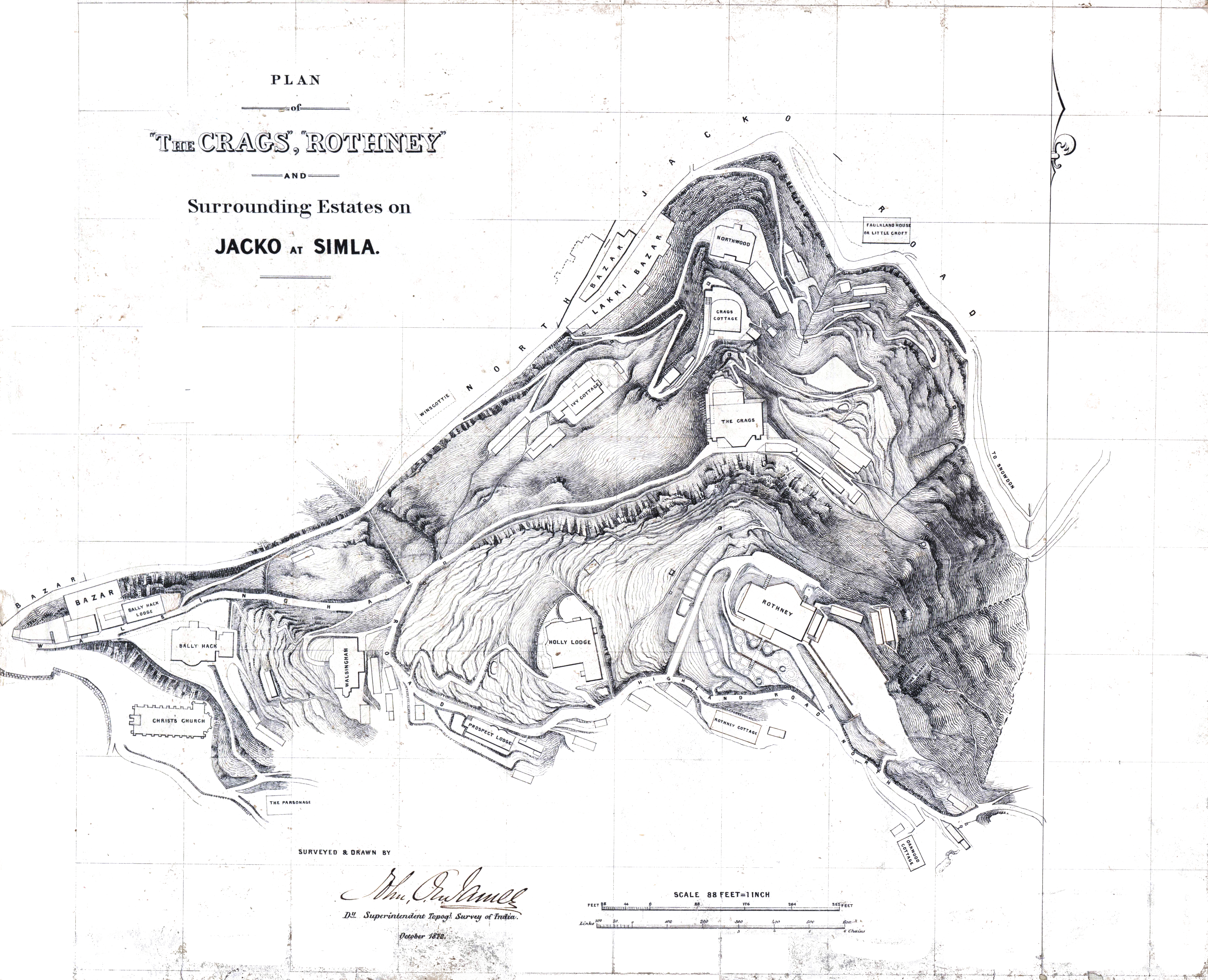 Rothney Castle in Shimla, survey map